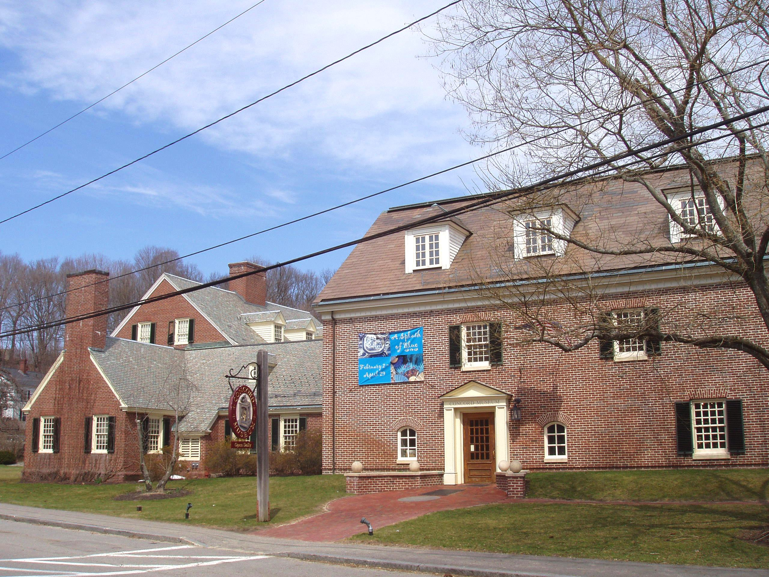 Photograph of the Concord Museum, Concord, Massachusetts, USA.